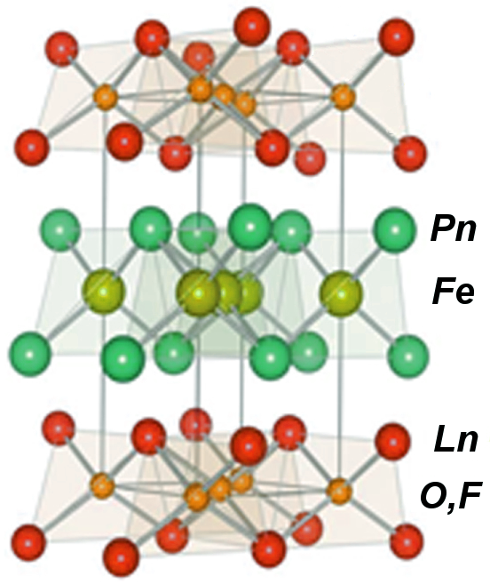 Structure of LnFePnOF superconductors, Ln = lanthanide (La, Ce, etc.), Pn = pnictide (As, P, etc.)